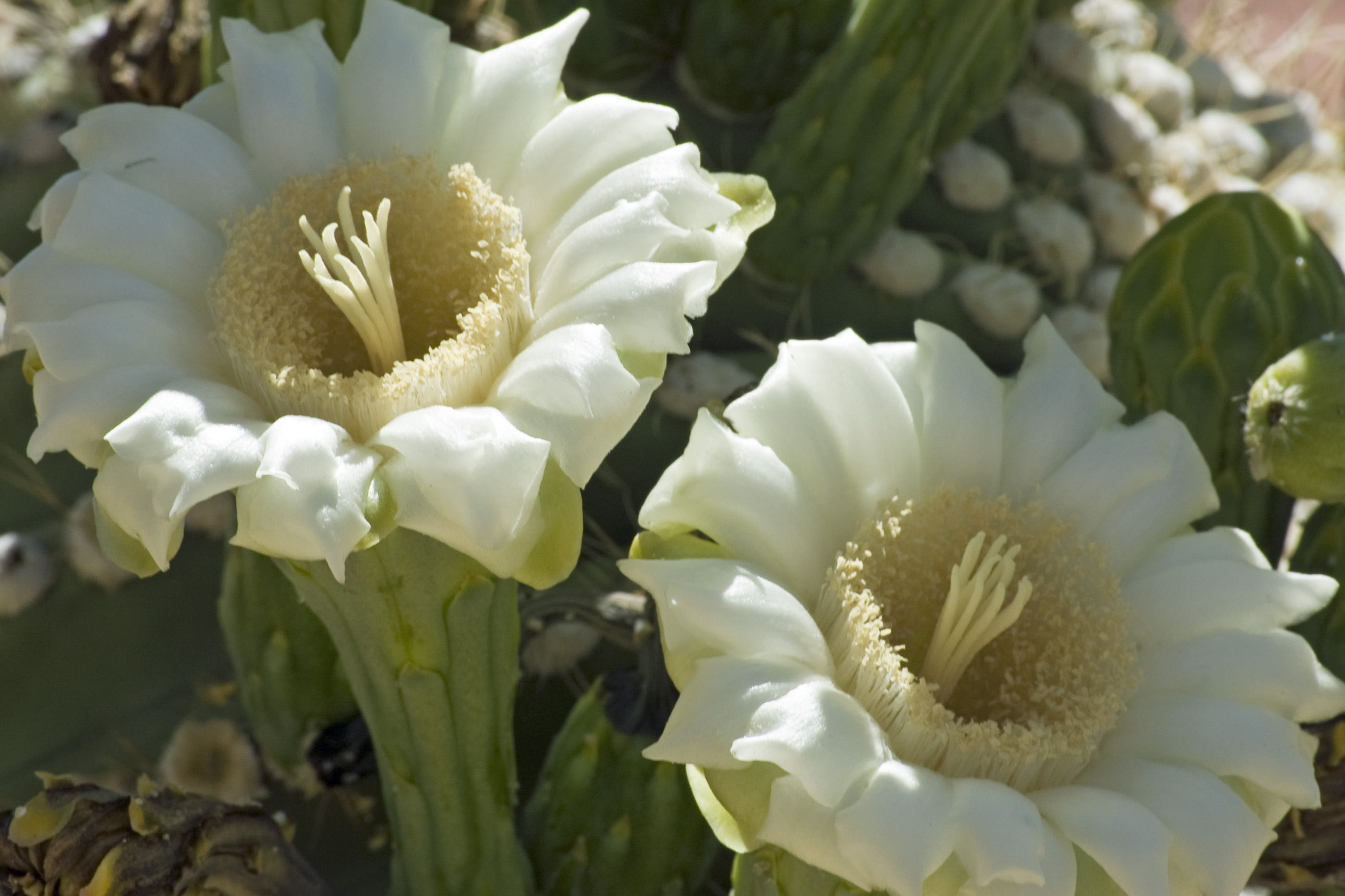 Saguaro cactus flowers; near Tucson, Arizona.